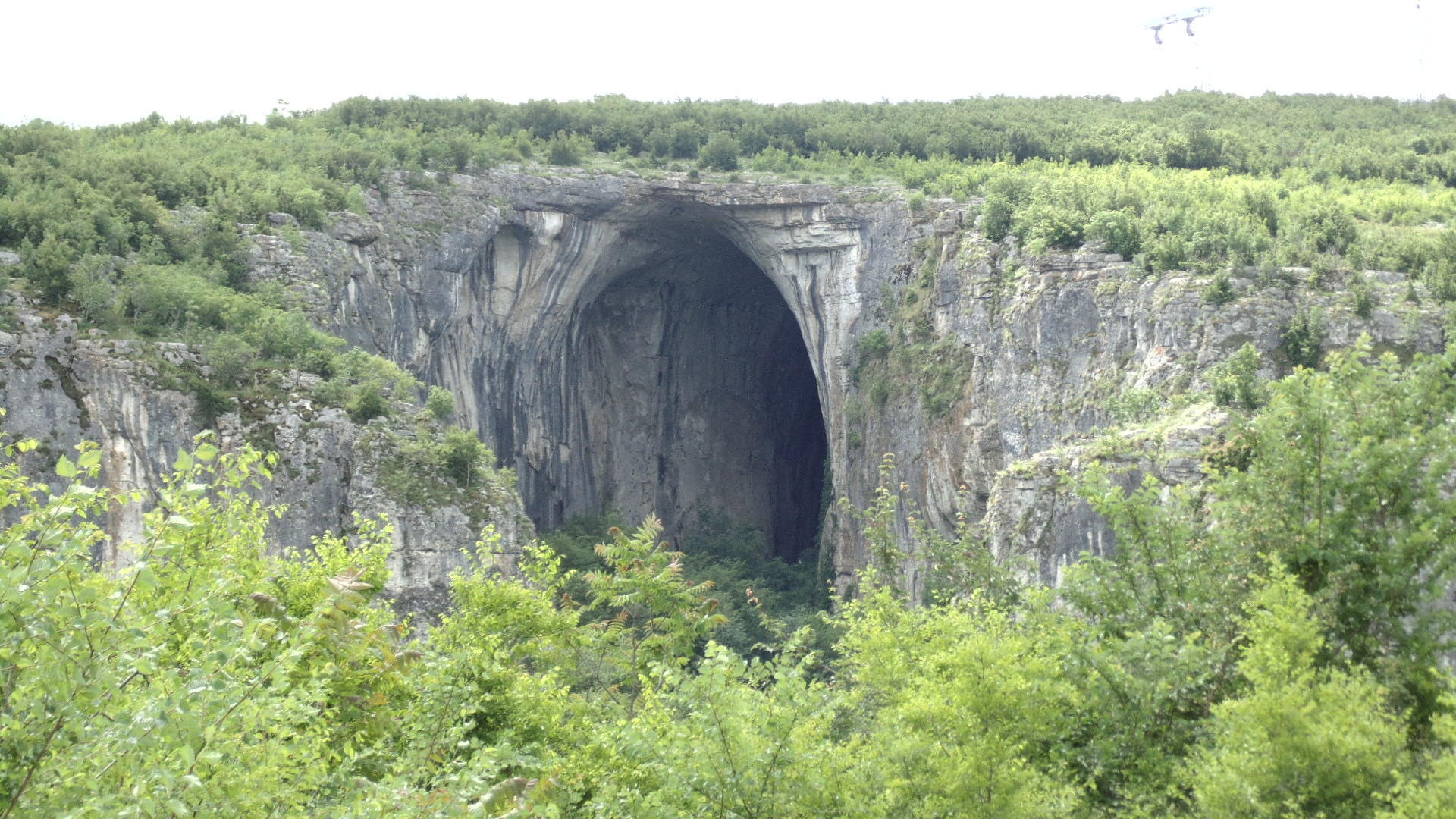 The cave Prohodna - the exit of the cave